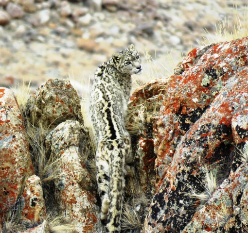 Snow leopard spotted in the upper valley of Phyang village of Ladakh.